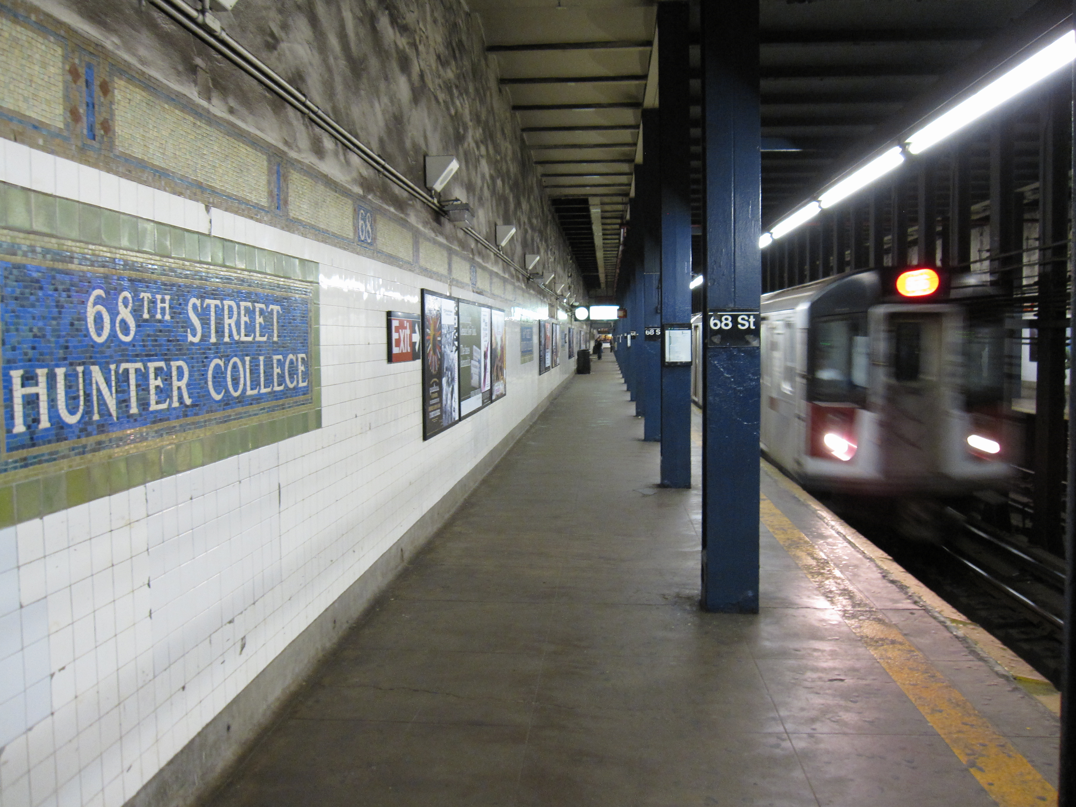 68th Street – Hunter College (IRT Lexington Avenue Line)